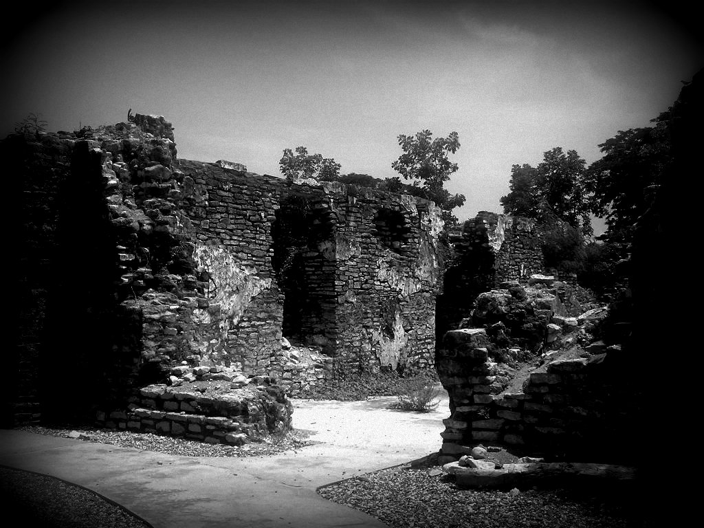 Orig. Flickr desc: There are no records when the church was built. It was still intact during the war and used by the Japanese in 1944 as their quarter. More on this at . Olympus Camedia (SWP North Luzon Cluster Consultations, June 2005). Slightly improved with Picasa.